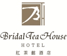 Bridal Tea House Hotel logo